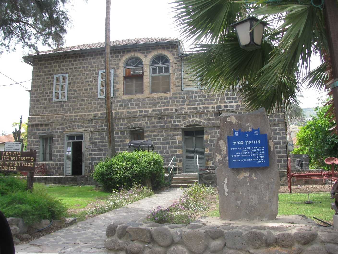 Kinneret, Moshava, Settlements in Israel